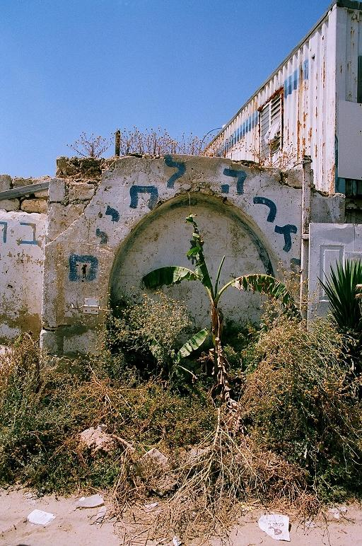 Ruined Sebil in Saknat A-Turki, Jaffa